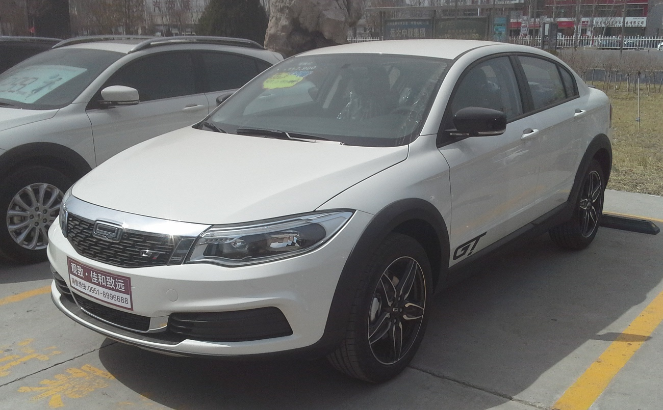 Qoros 3 GT photographed in Yinchuan, Ningxia province, China.